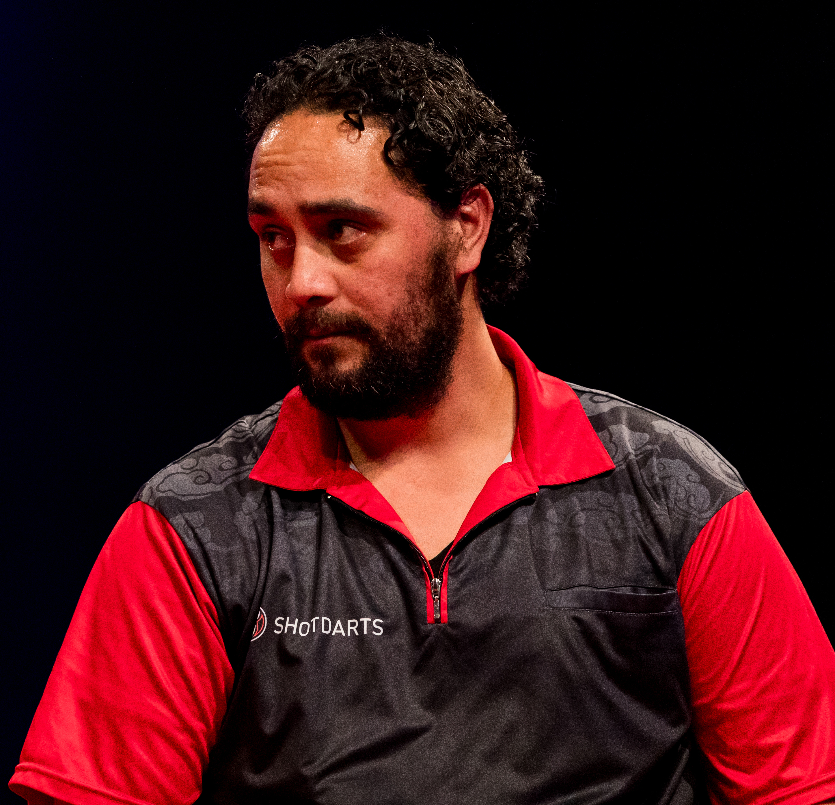 Glen Durrant 6:3 Cody Harris during PDC Europe Darts Matchplay at Maimarkthalle, Mannheim, Baden-Württemberg, Germany on 2019-09-07, Photo: Sven Mandel